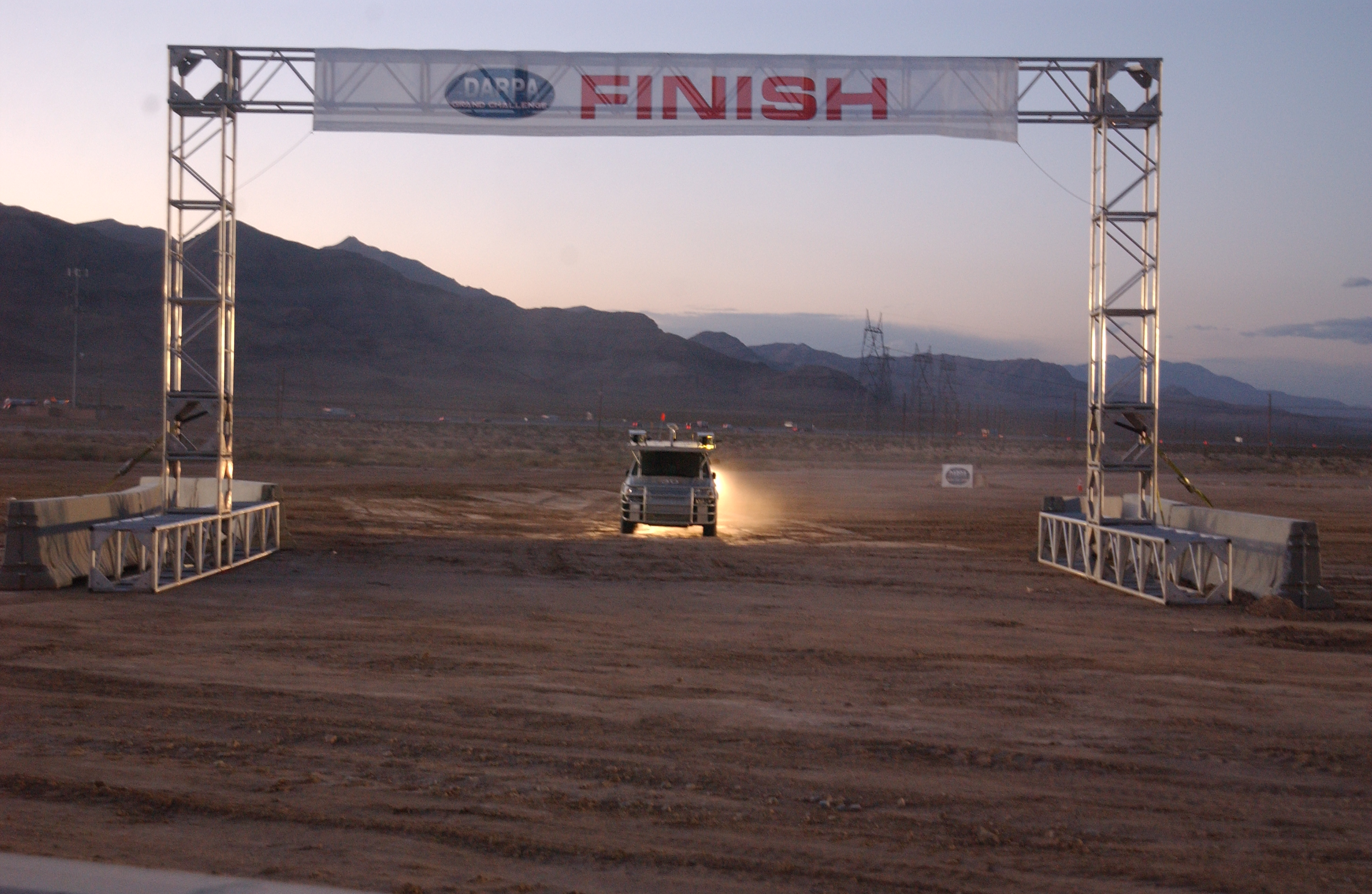 Kat-5 is the fourth vehicle to cross the finish line at the 2005 DARPA Grand Challenge. Its official time was 7 hours, 30 minutes. Provided to the public by DARPA. Taken at the 2005 DARPA Grand Challenge, October 8, 2005.